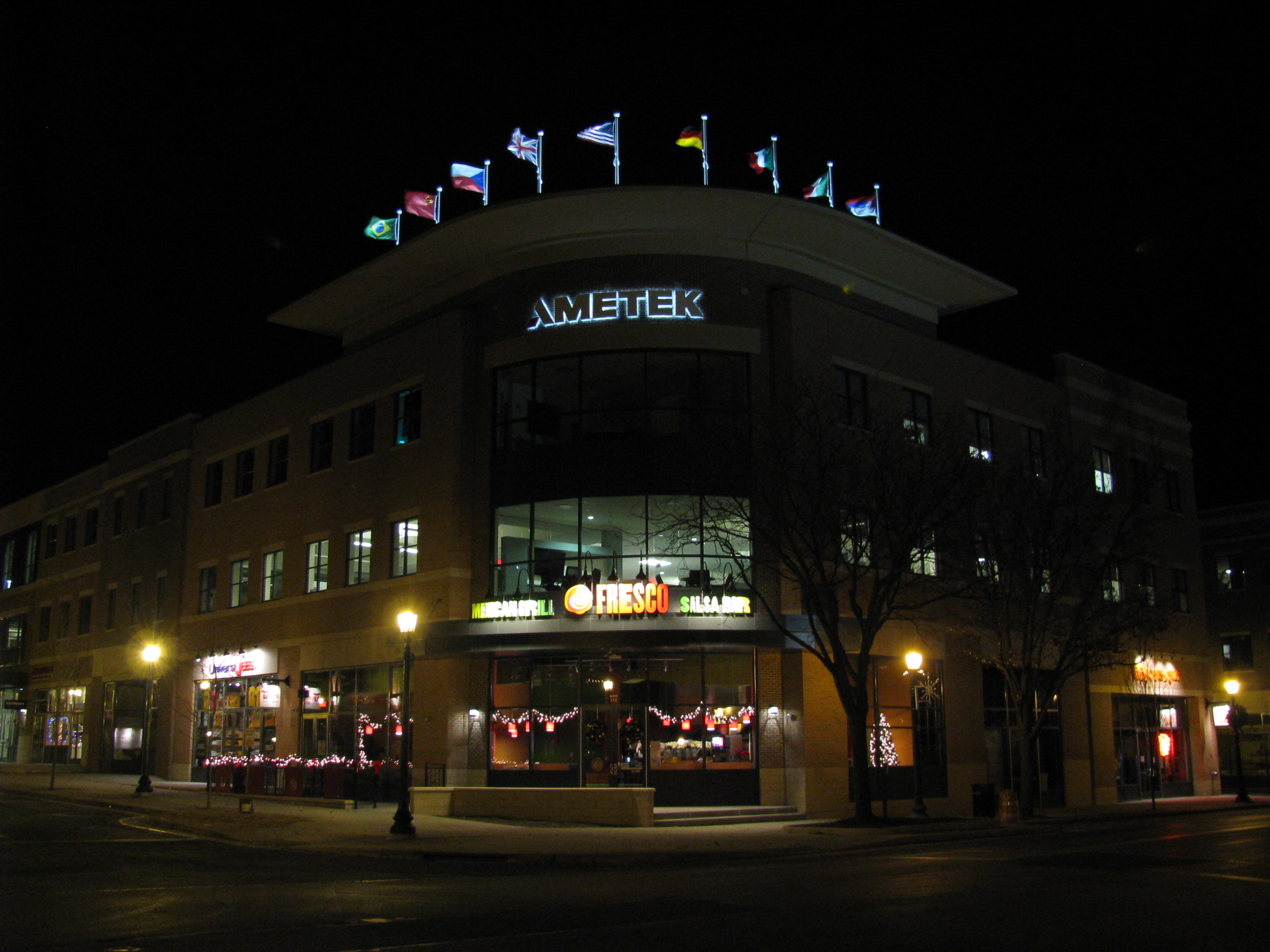 Kent offices for AMETEK in the downtown area. The building opened in 2012 and was part of a larger redevelopment effort totaling $110 million.